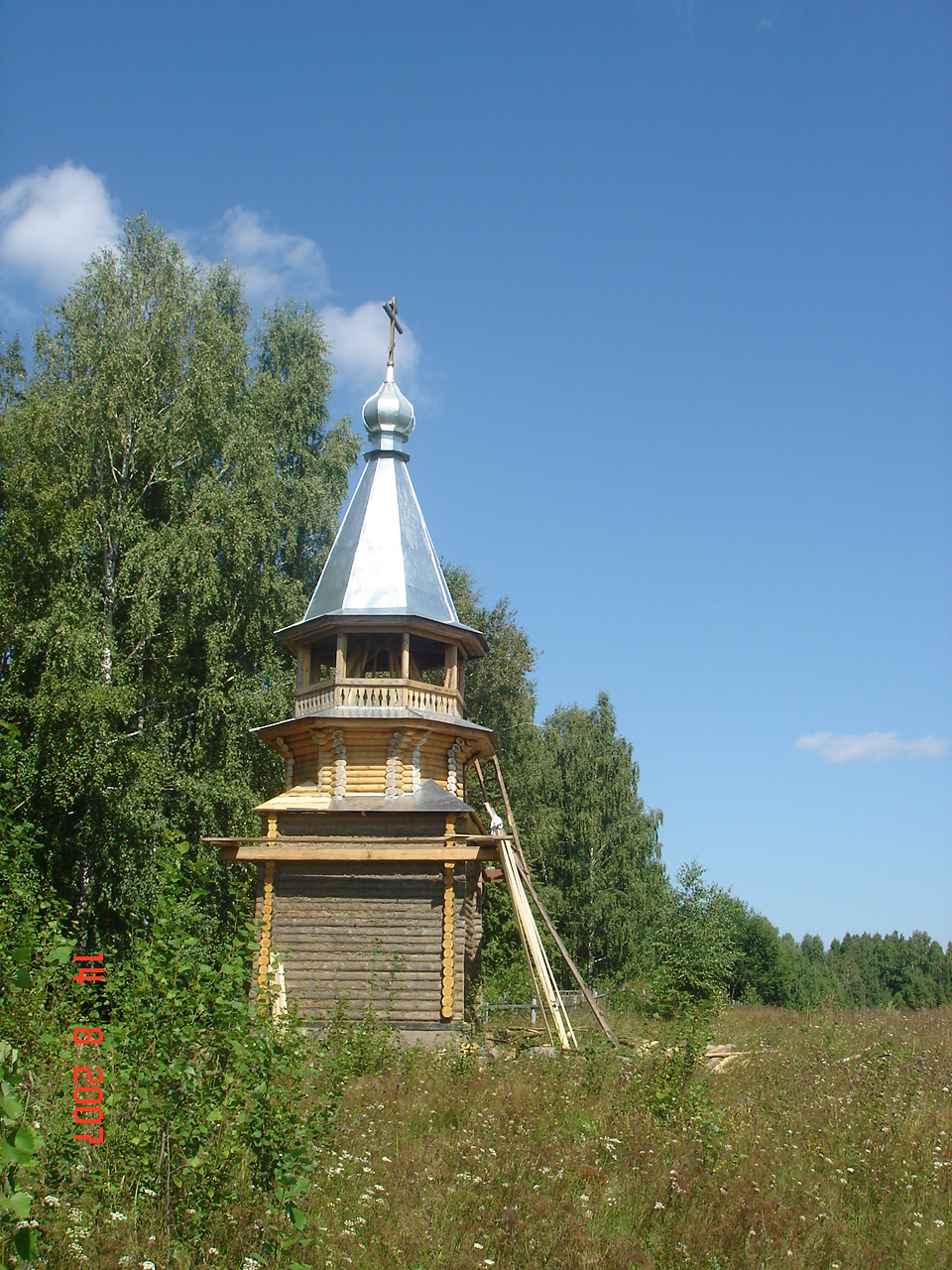 Часовня Михаила Тихоницкого